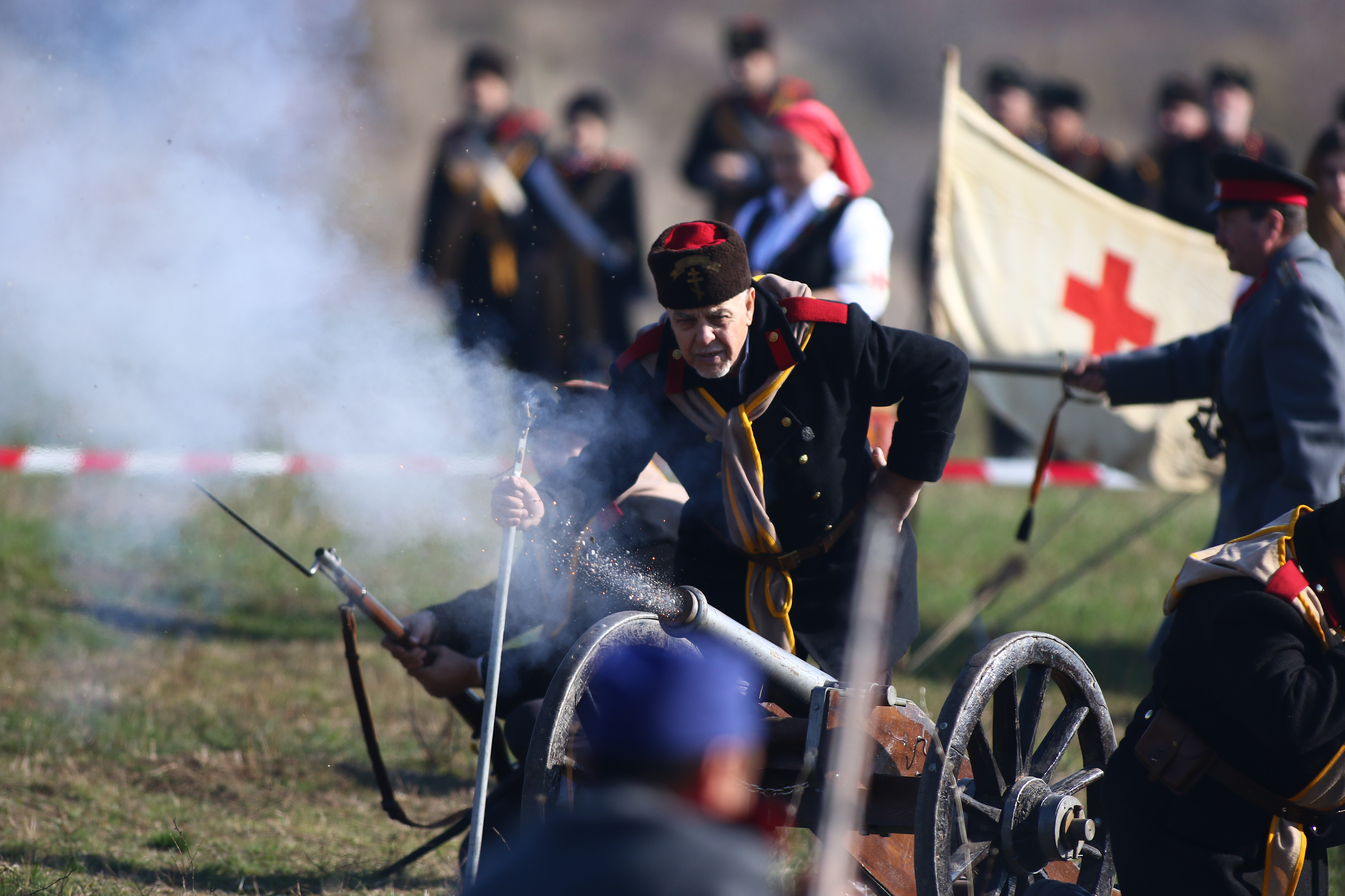 A moment of resumption of the Battle of Slivnica, part of the Serbo-Bulgarian War of 1885. This photo has been taken in the country: Bulgaria